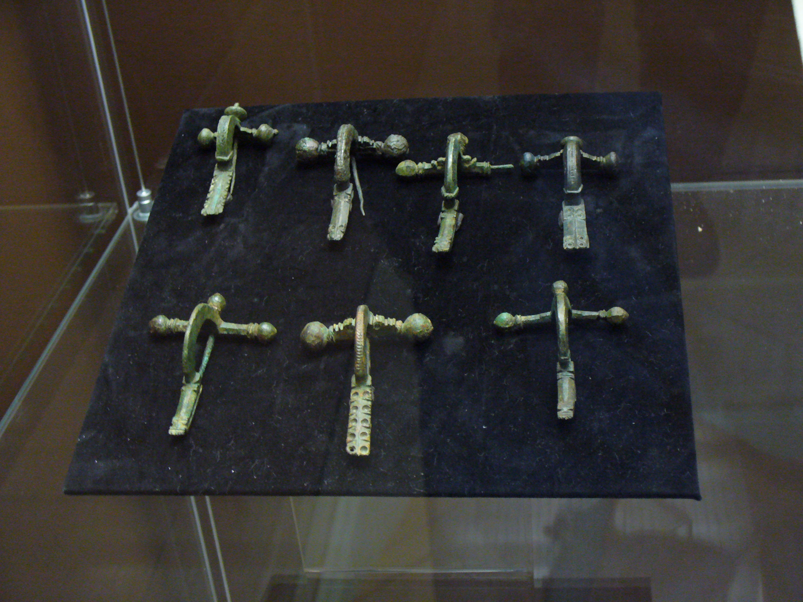 Great Moravia jewelry.